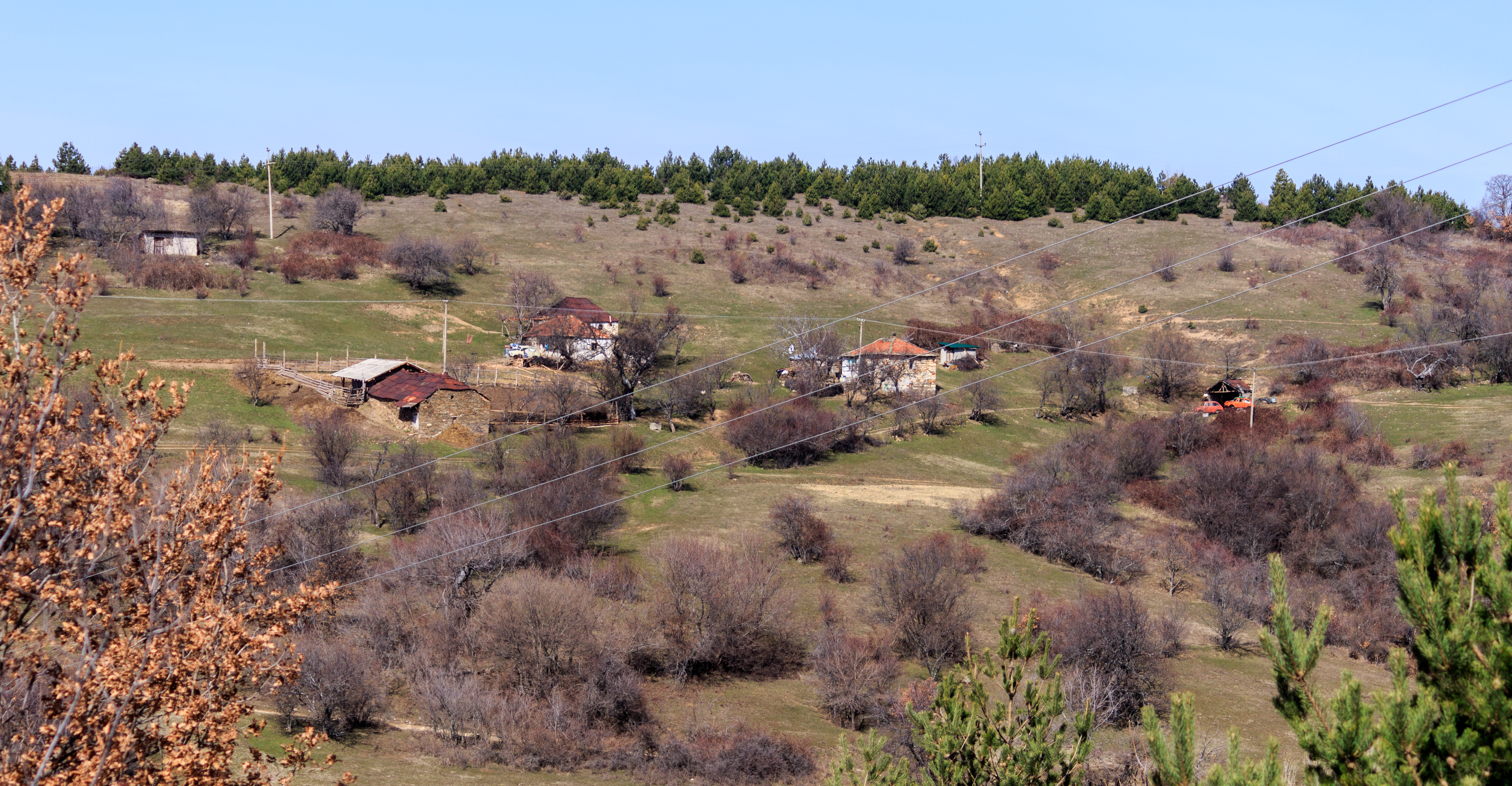 Part of the village Arbanaško